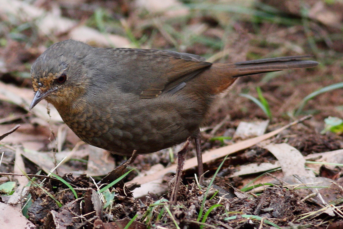 Pilotbird in Monga National Park